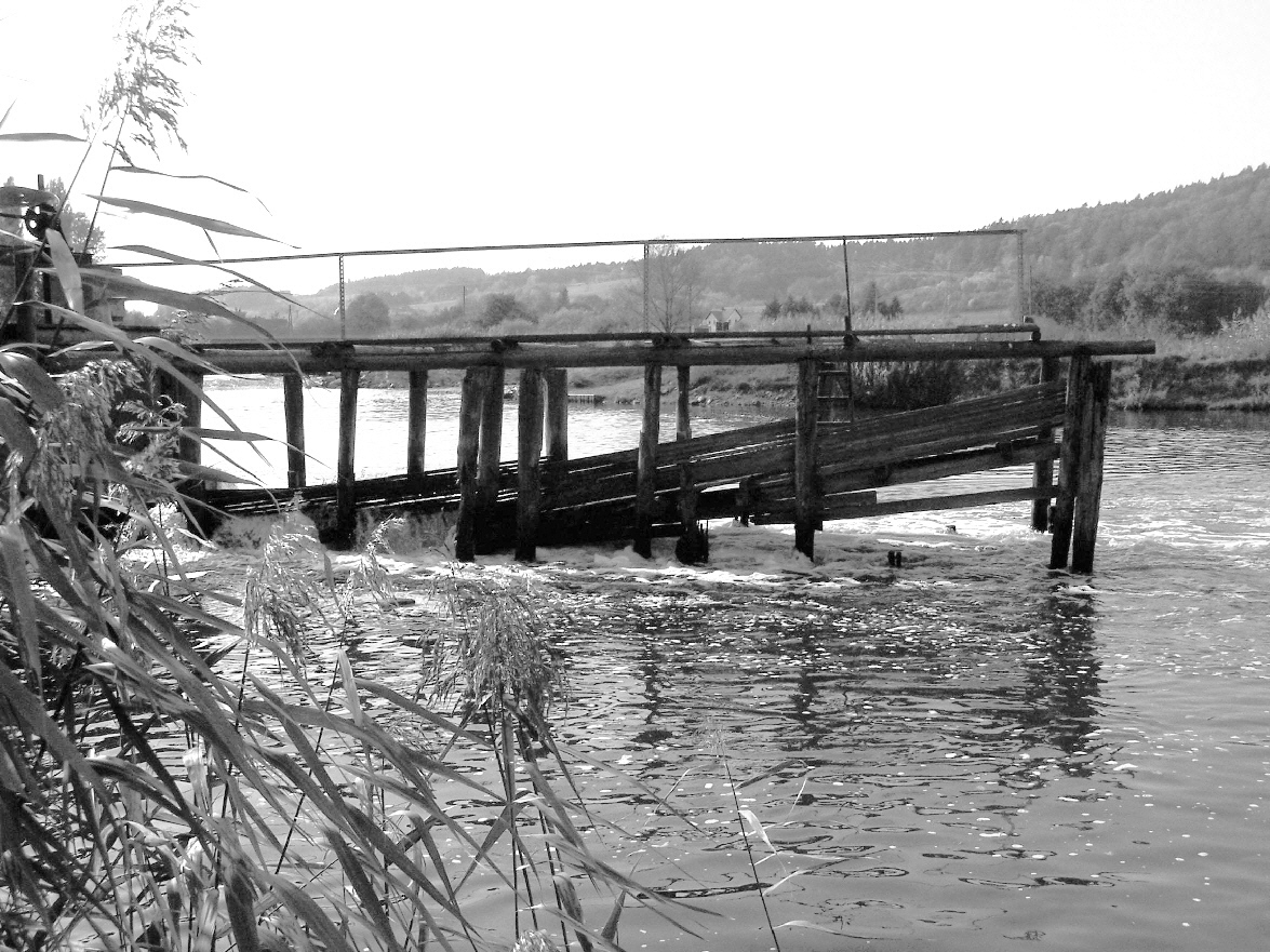 A Schweddrich - a scecial kind of fishing at the river Werra.